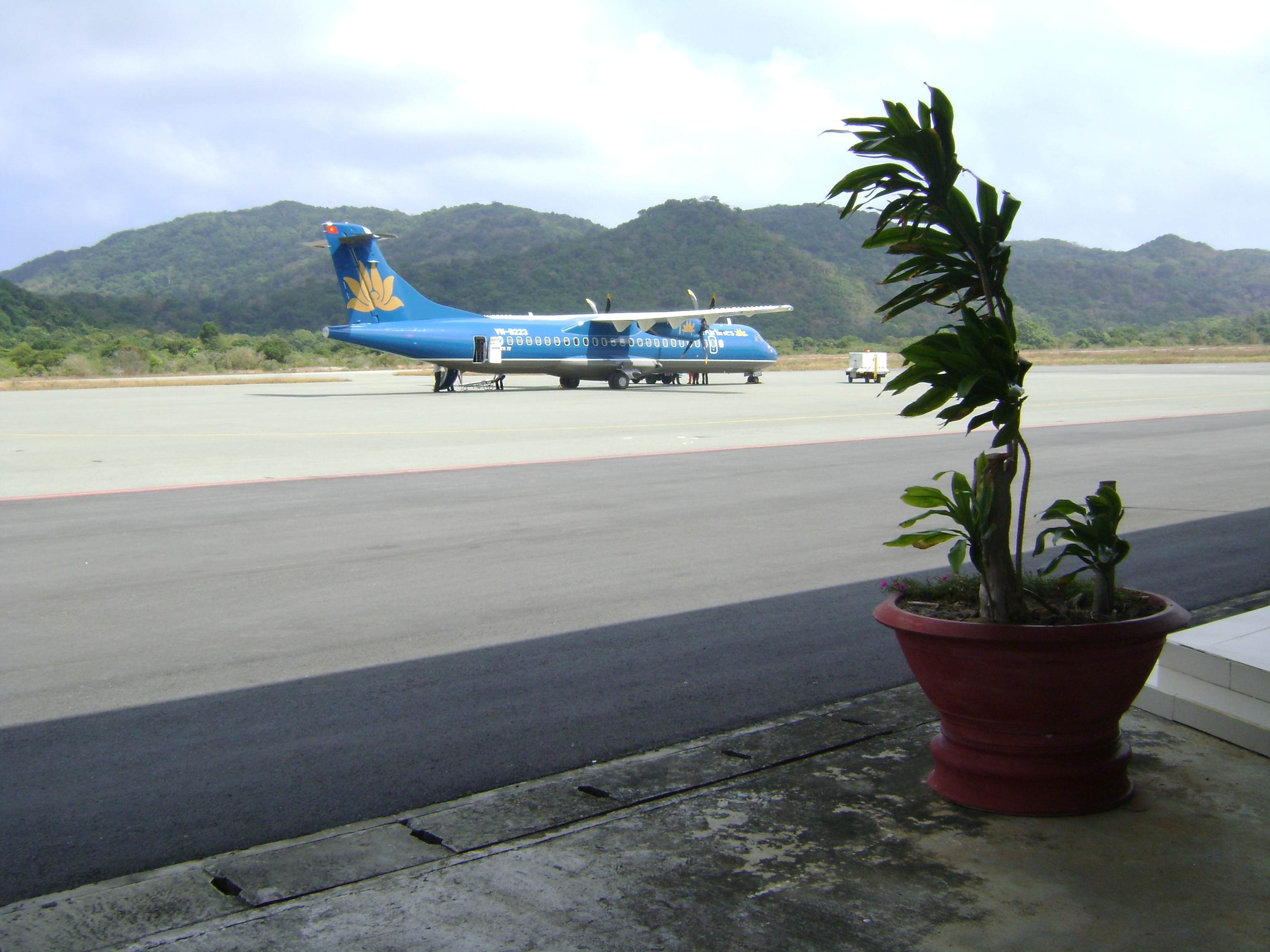 A Vietnam Airlines ATR72-200 from Ho Chi Minhcity on Co Ong airport.